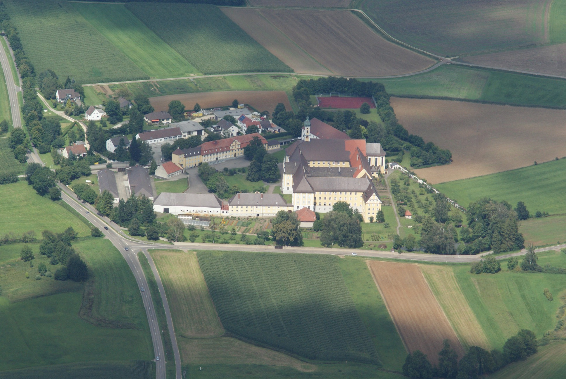 Kloster Maria Medingen, Kloster Moedingen (Mödingen), monastery in south-germany.